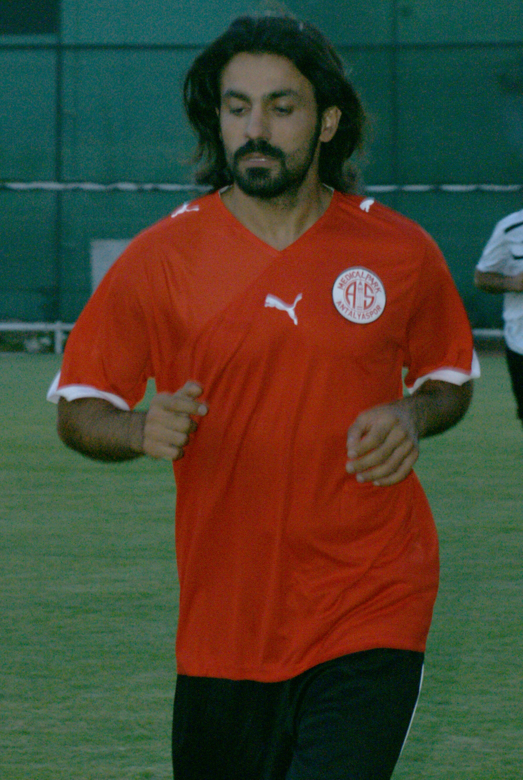 Teber